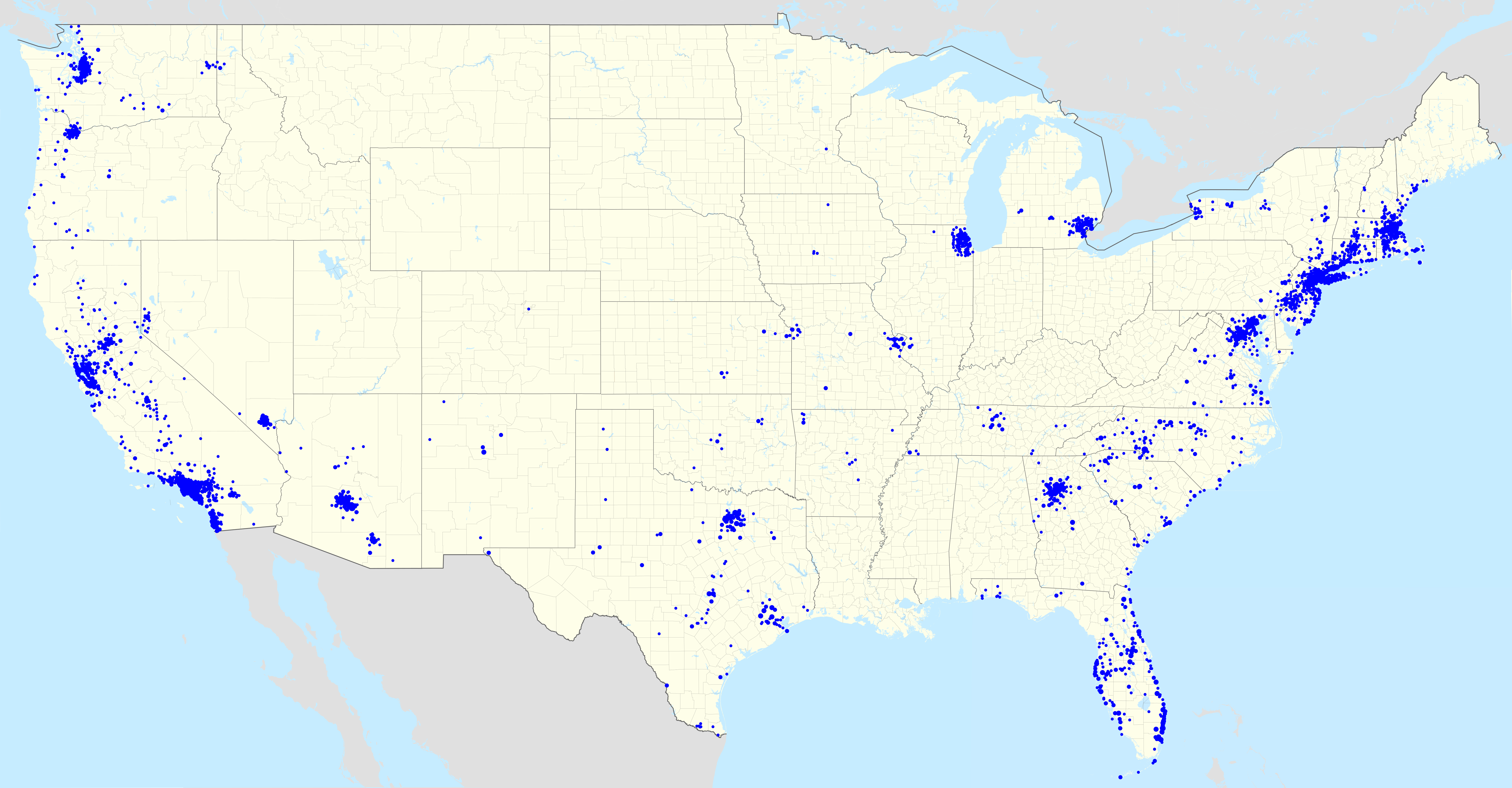 Footprint of Bank of America.